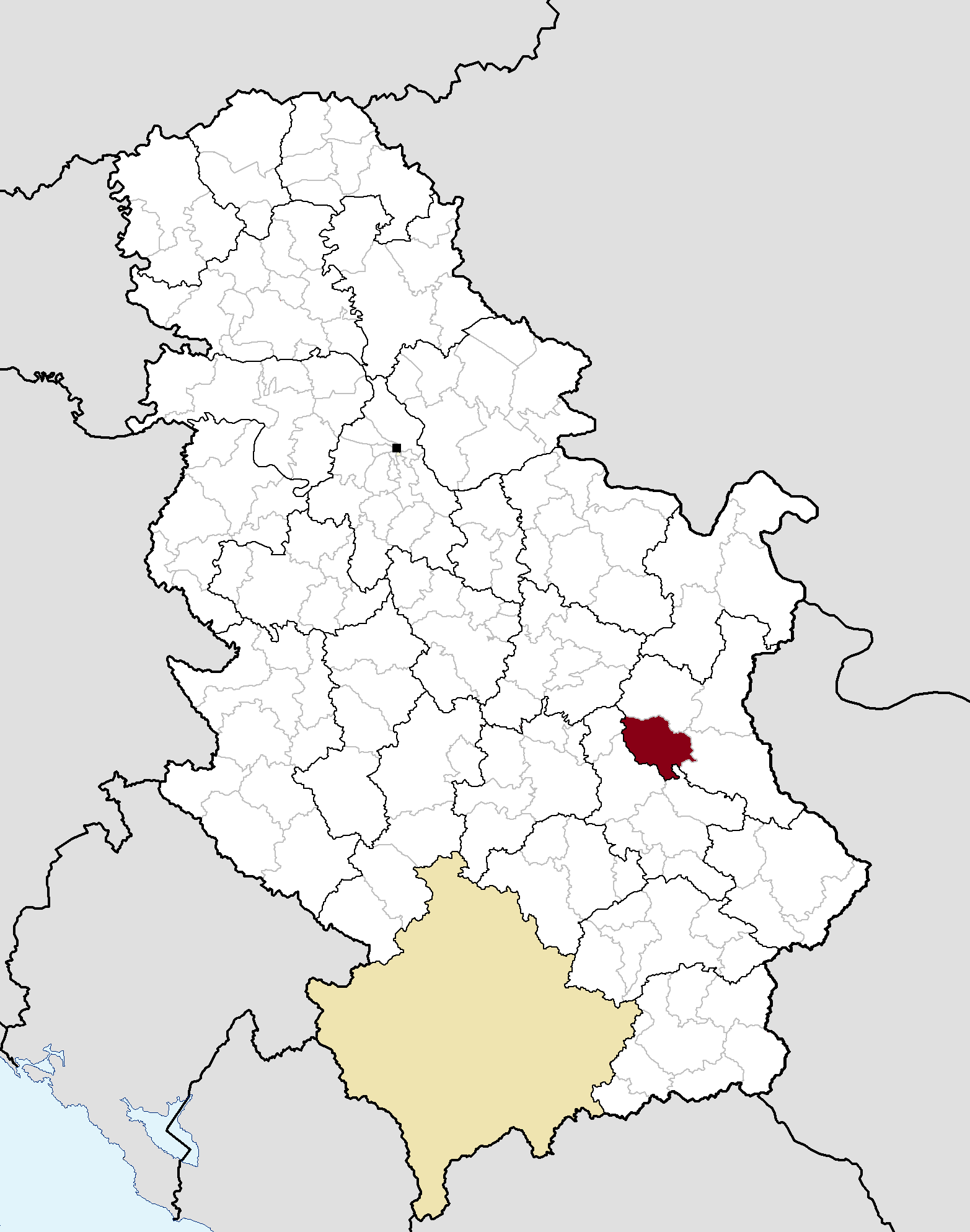 Municipal location in Serbia